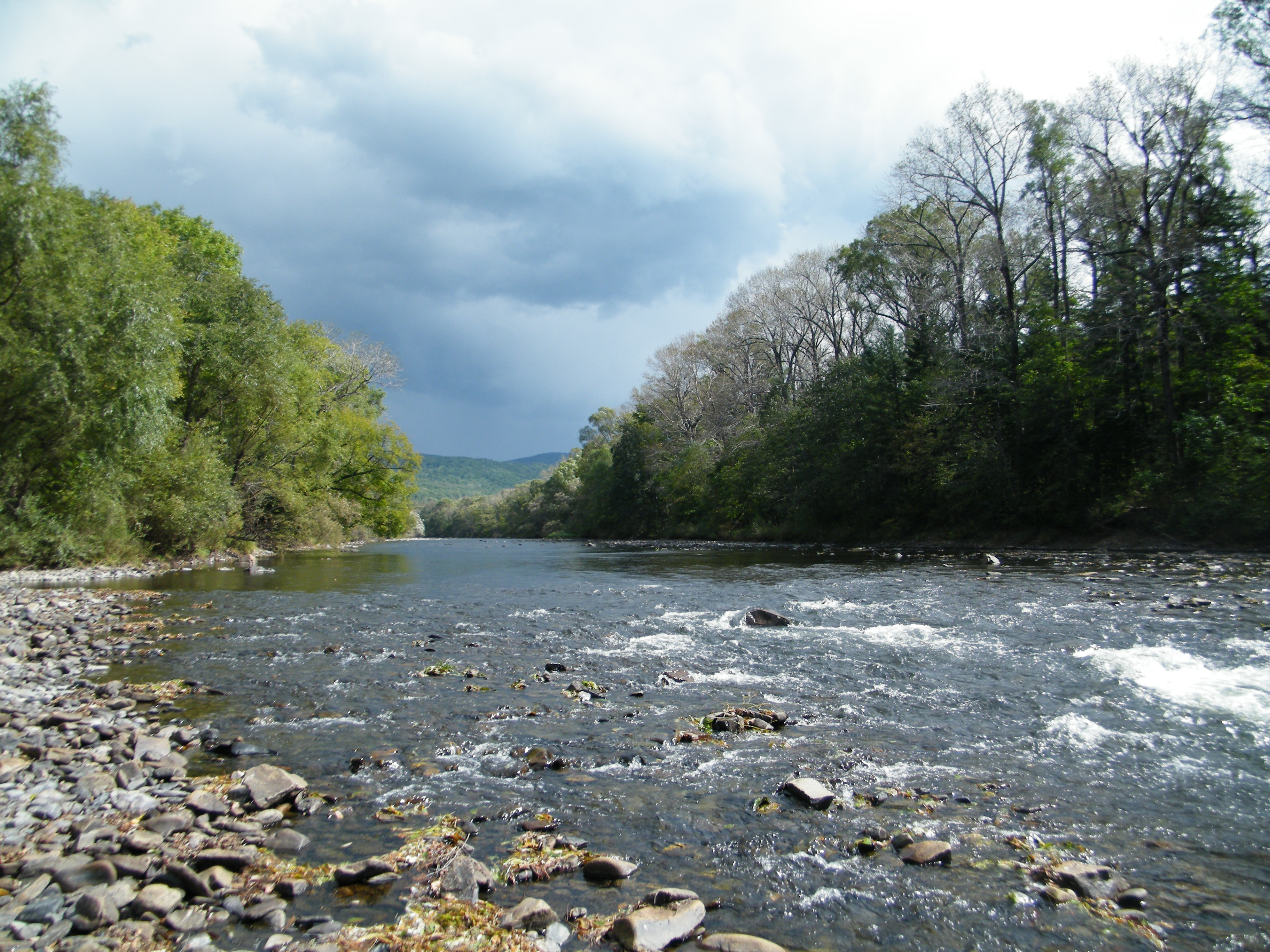 Pavlovka River 5 km upstream from Shumnoye village in Chuguyevsky District, Primorsky Krai, Russia